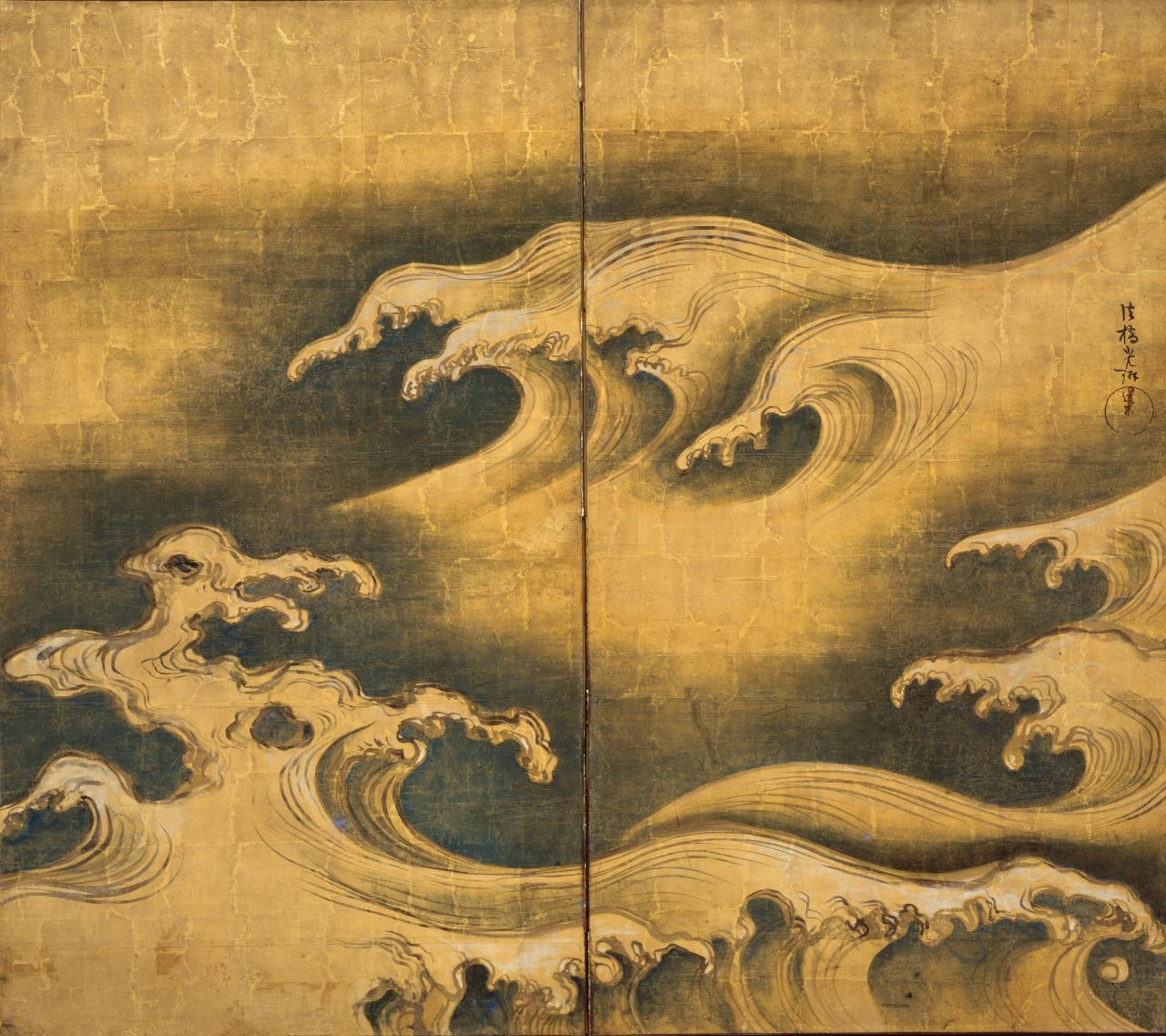 Ink and colour on gold-leafed paper